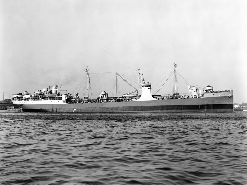 The U.S. Navy fleet oiler USS Maumee (AO-2) off the Norfolk Naval Shipyard, Virginia (USA), on 31 March 1945. She is painted in Camouflage Measure 12.